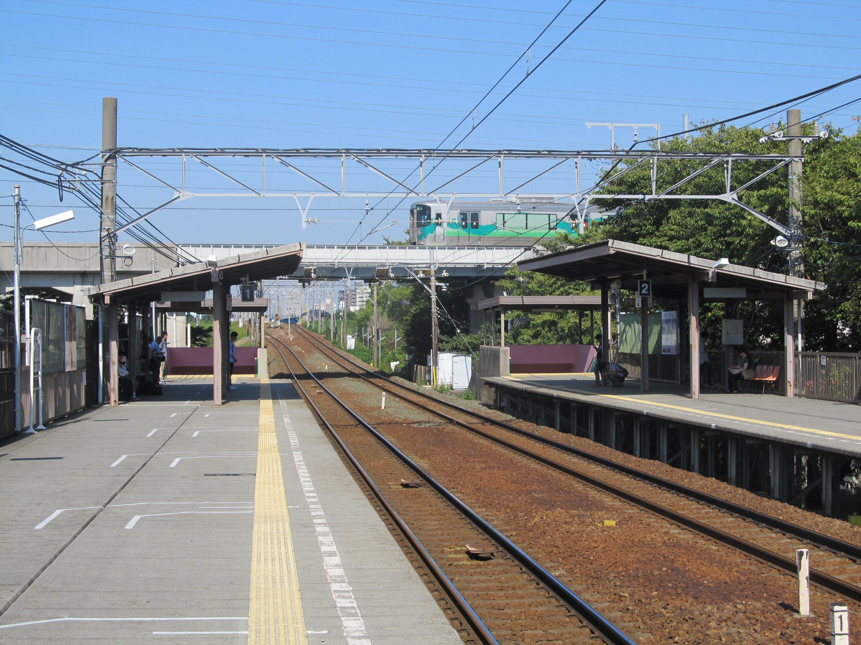 Nagoya Railroad Nagoya Main Line Okazakikōen-mae Station Platform